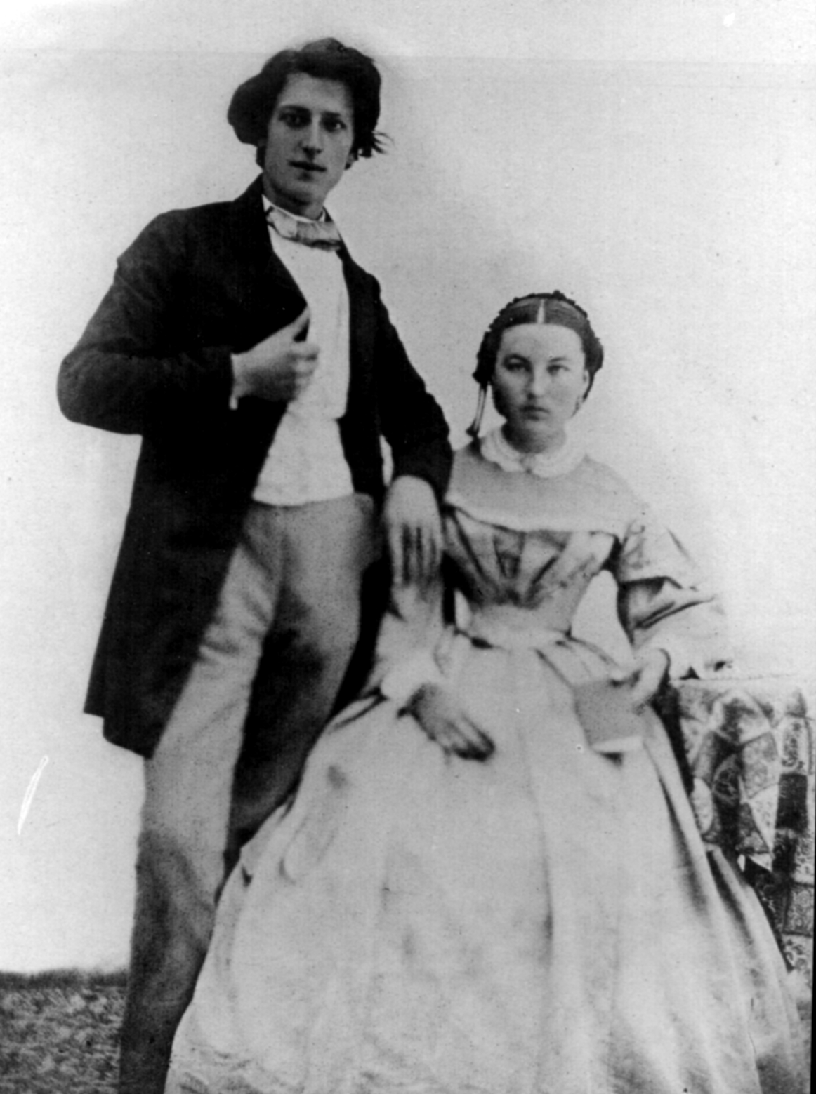 Anton Maucher, Agathe parents of Wilhelm Maucher